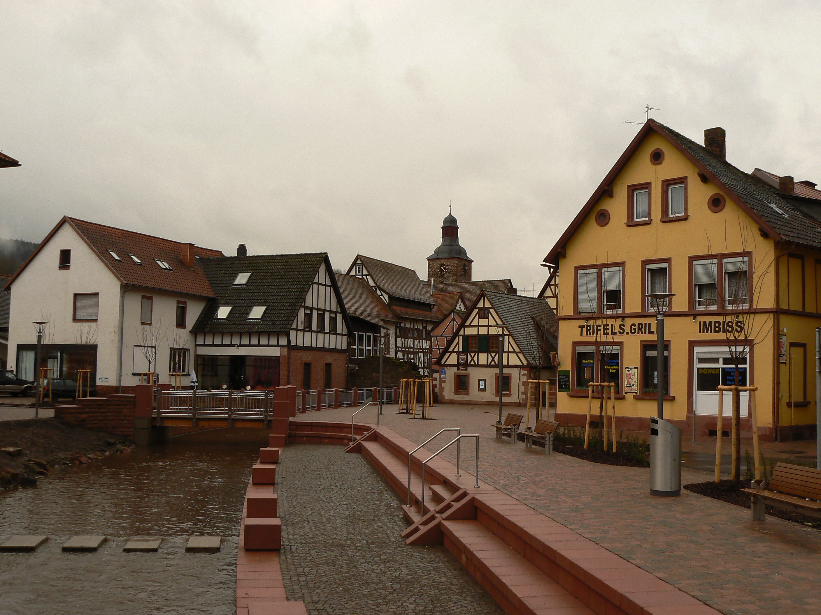 pd-self